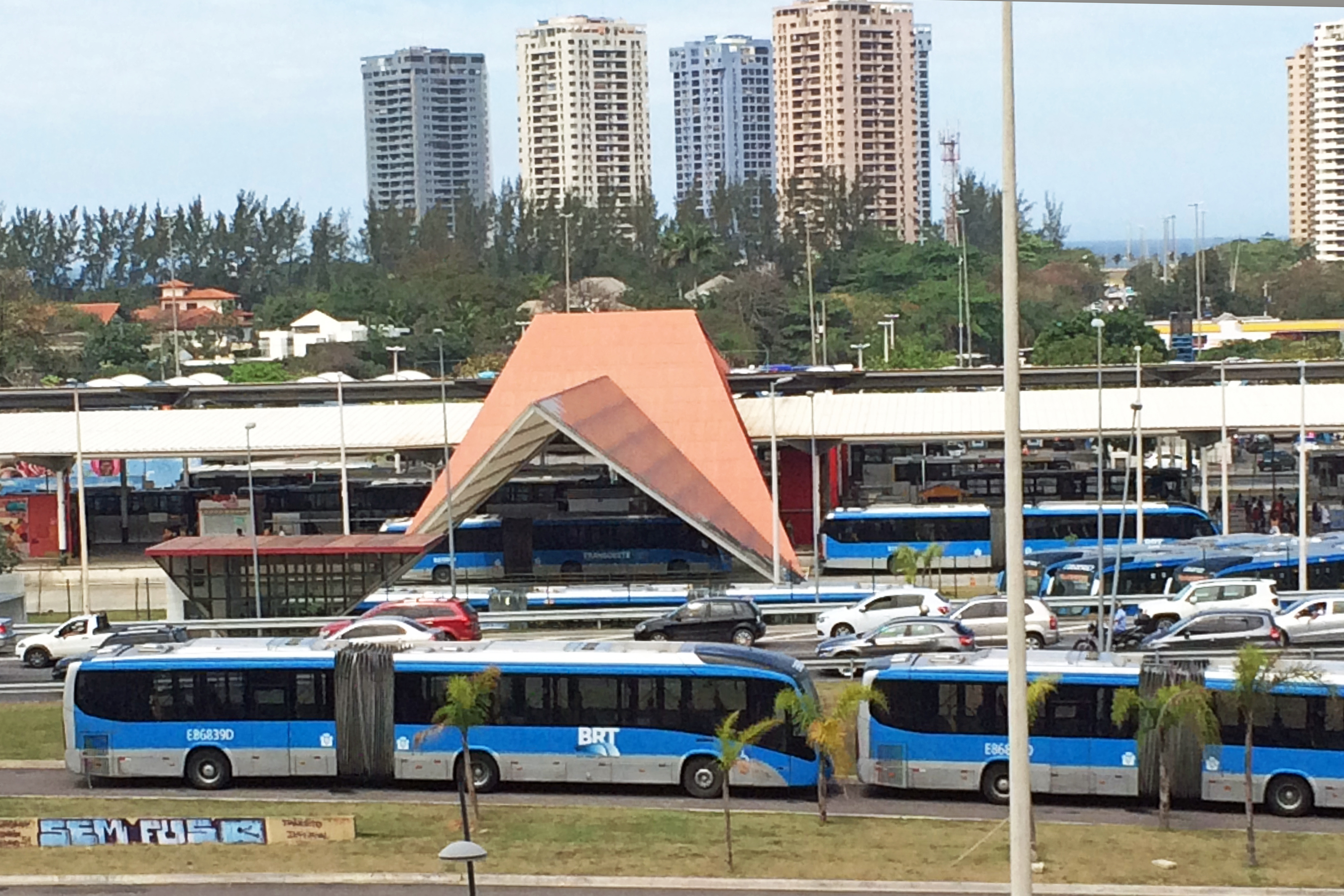 BRT Transoeste, Terminal Alvorada, Barra de Tijuca, Rio de Janeiro, Brazil